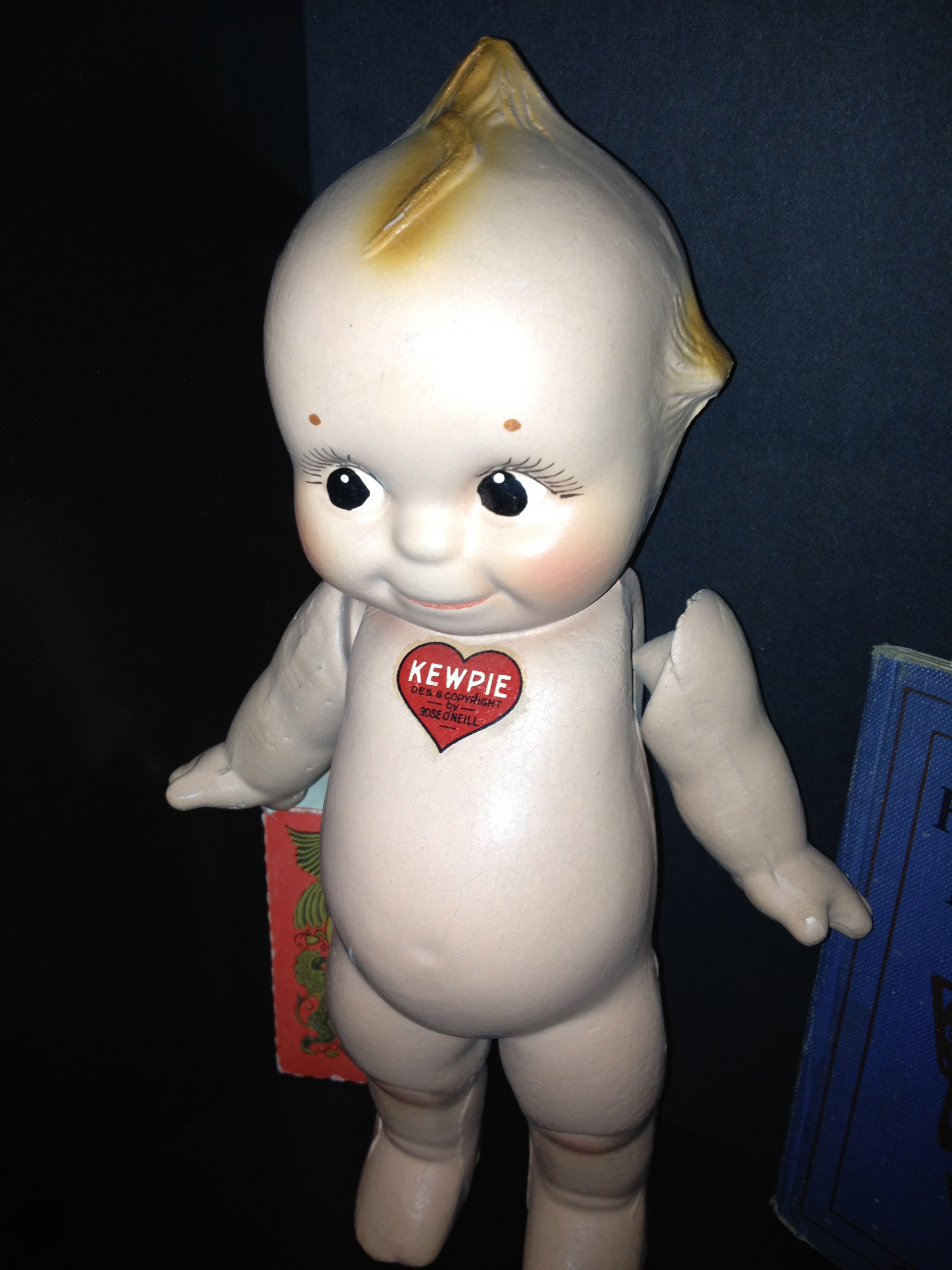 Photograph of authentic 1920s Kewpie doll with original heart decal bearing brand and copyright.